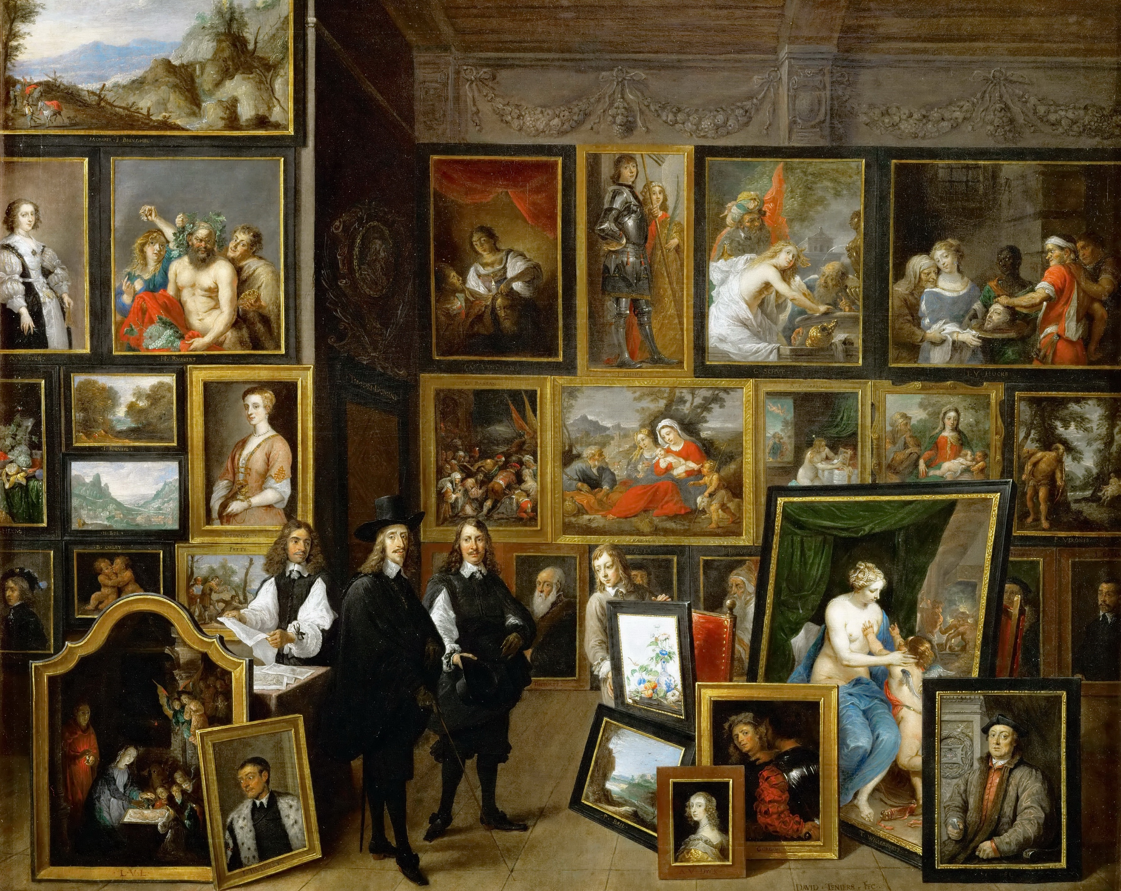 The Archduke is shown centre left; standing holding his hat, to the right is a self-portrait of his court painter, David Teniers II